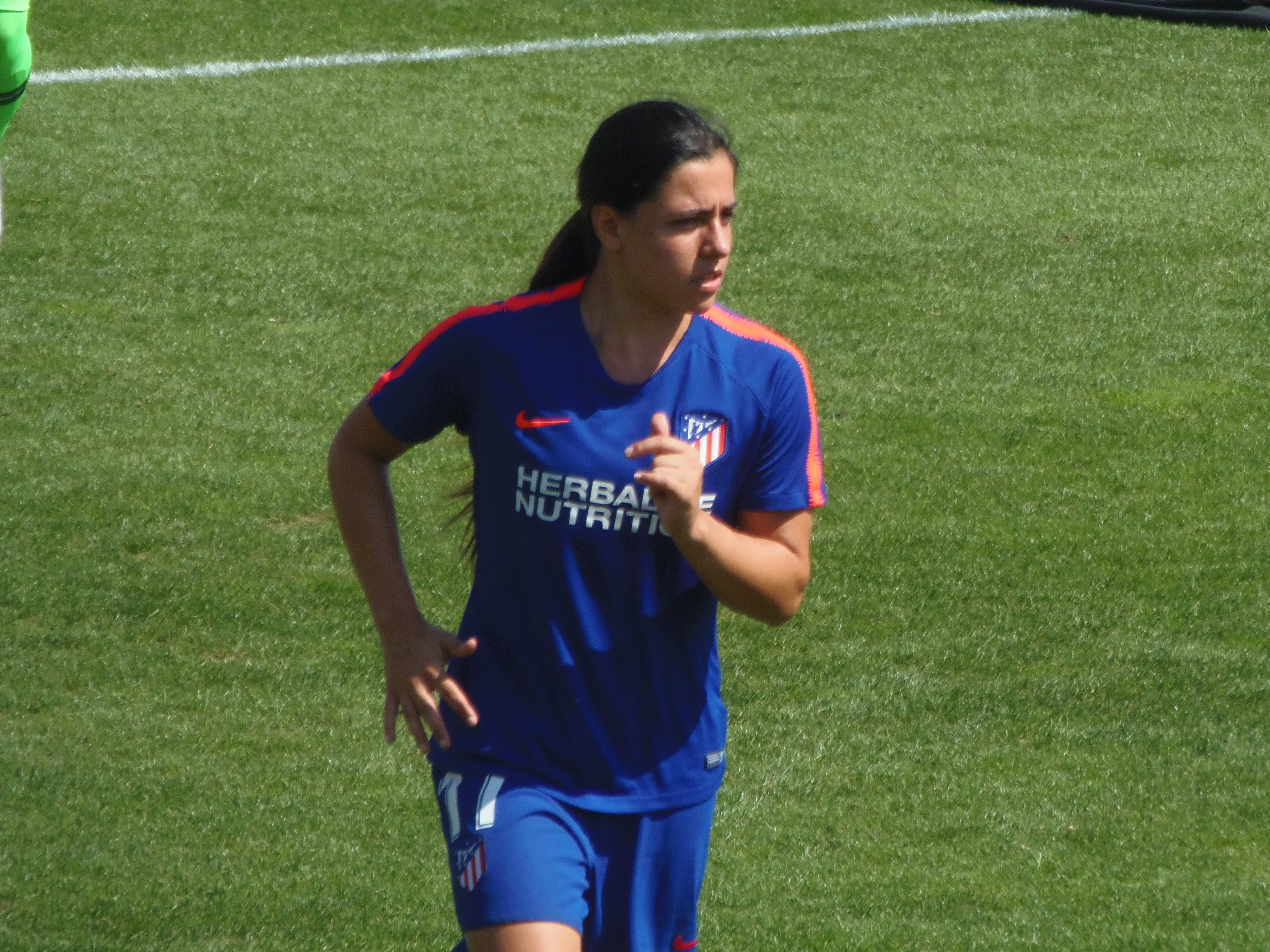 Alex Chidiac warming up in the half time of the Atletico de Madrid - UDF Logroño game